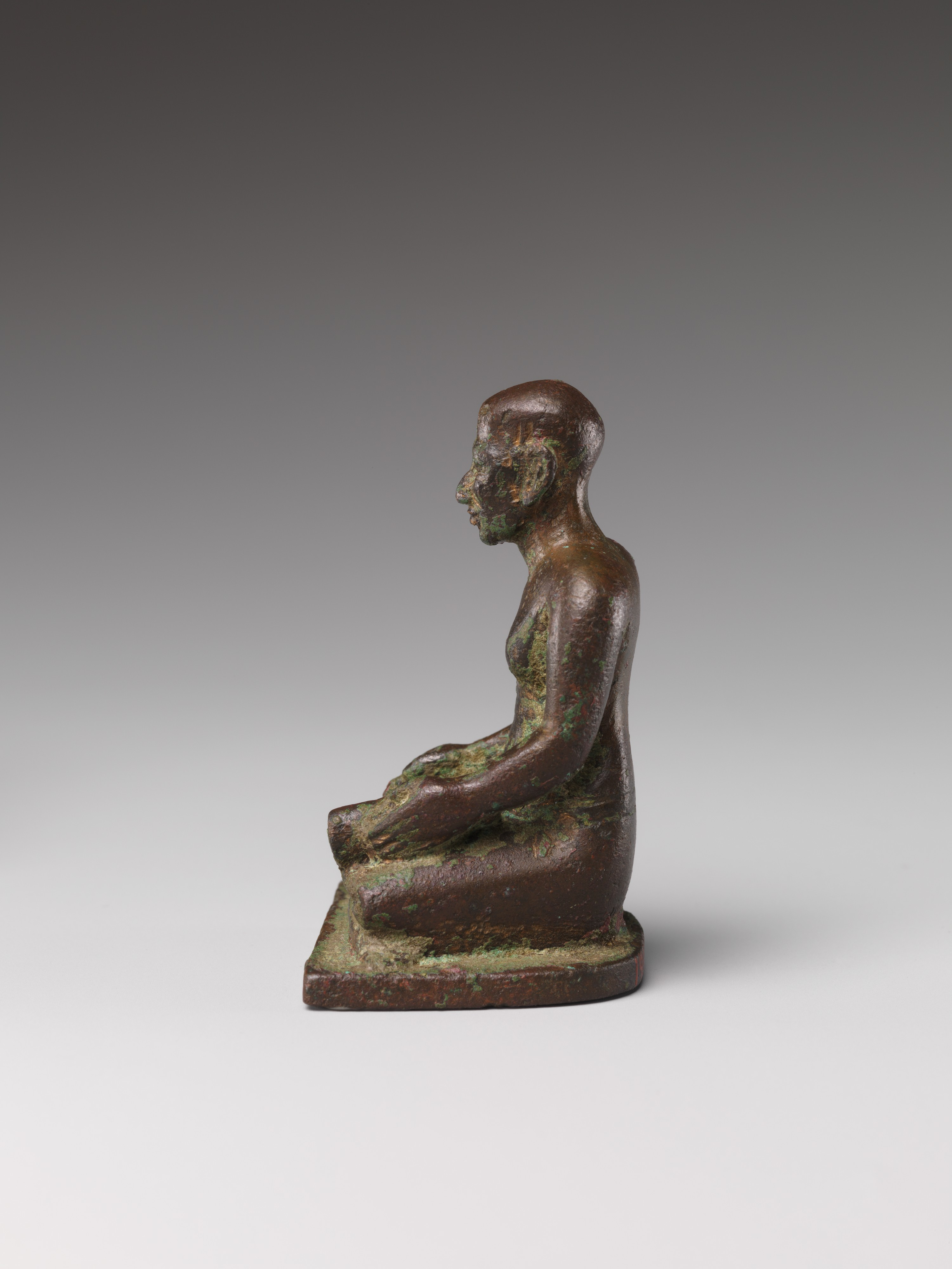 Statuette, scribe